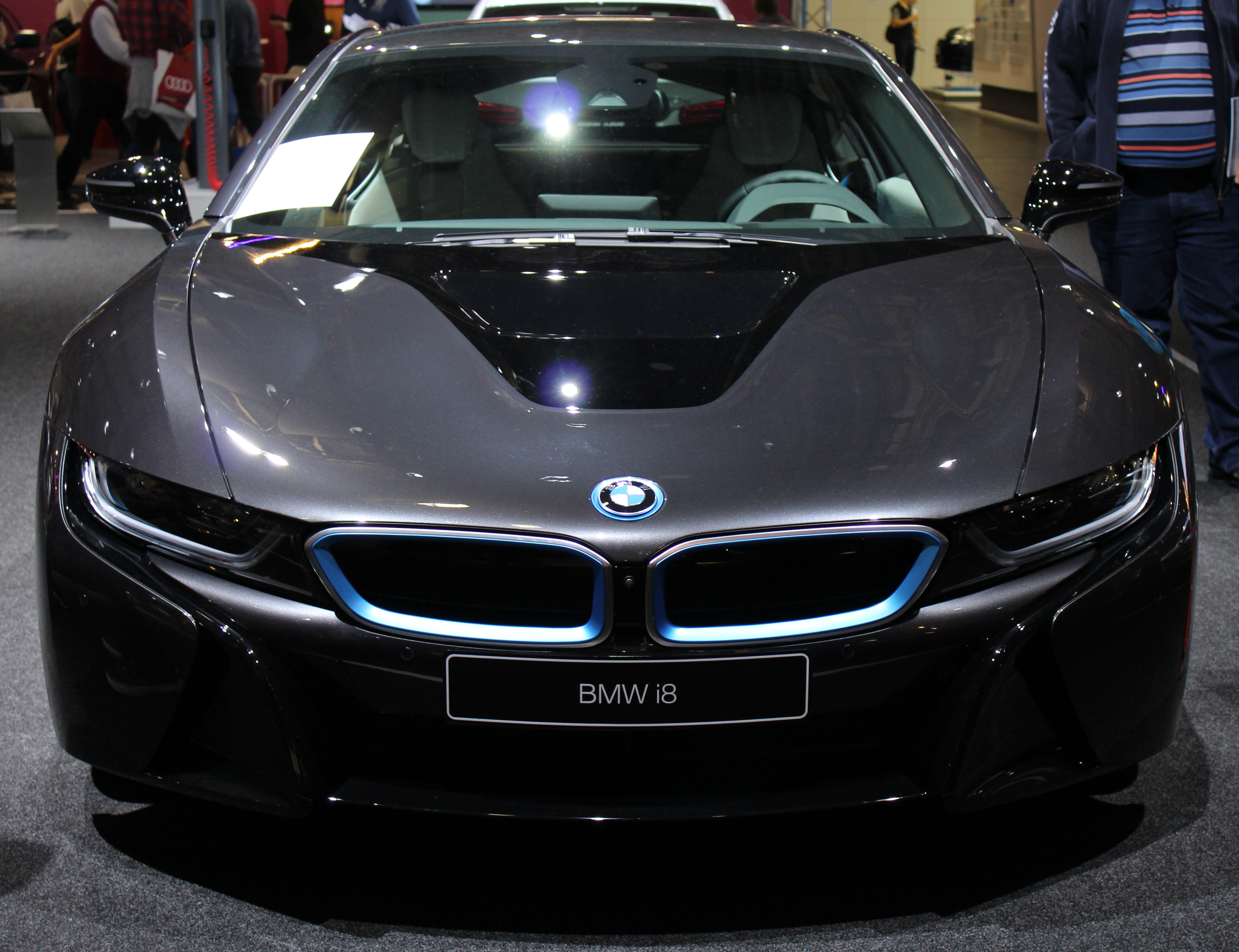 Passenger vehicles being displayed in 2015 International Motor Show Germany.